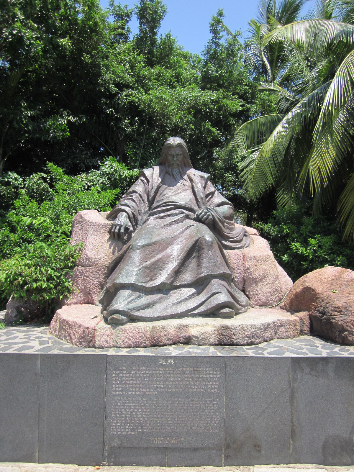 Tianya Haijiao